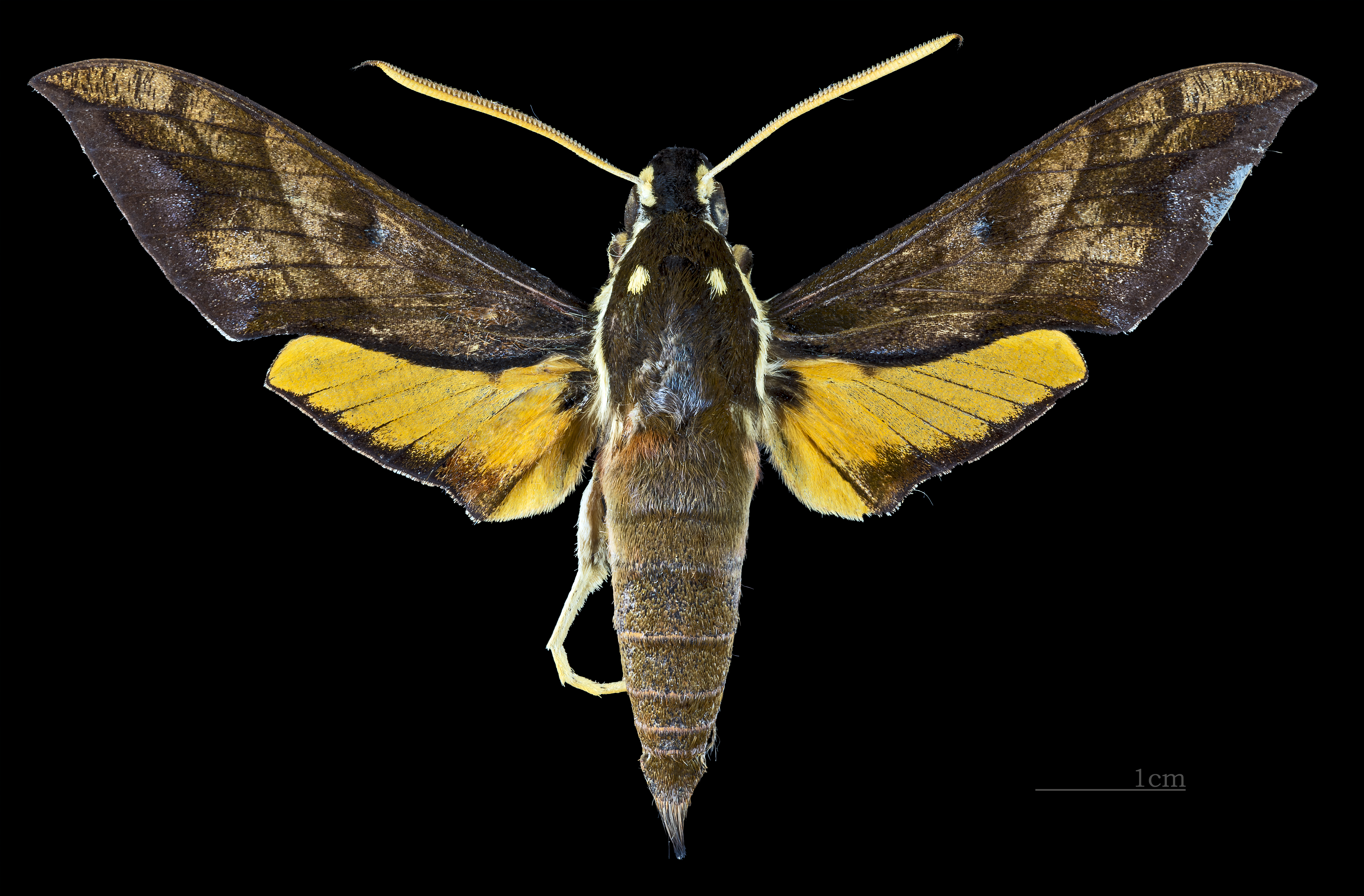 Gnathothlibus brendelli - Dorsal side Collection of the Mathematician Laurent Schwartz